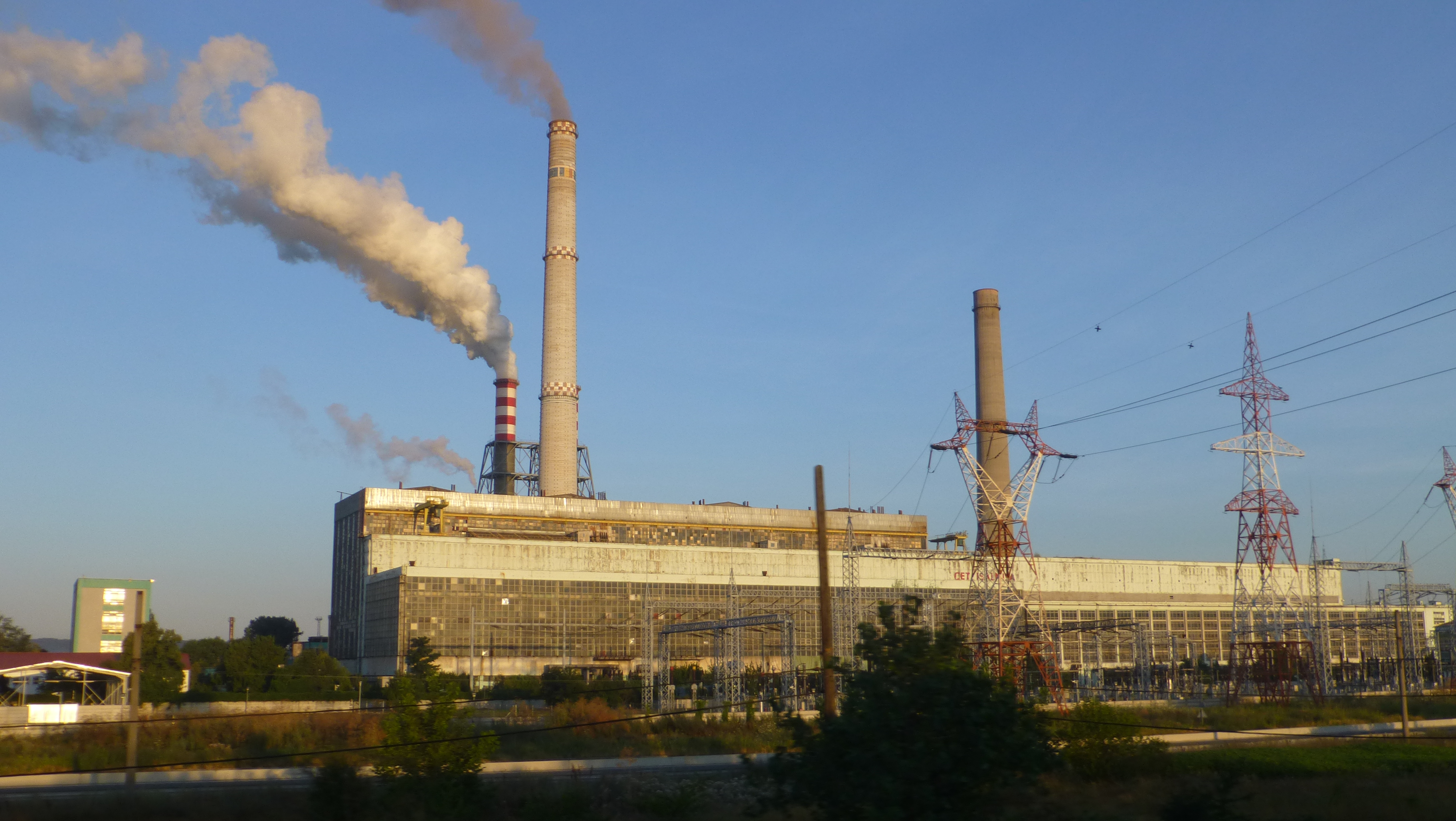 The Ișalnița Power Station near Craiova, Dolj County, Romania; The largest chimney is 200 metres tall. The photo was taken from the expresstrain "Nesebar".